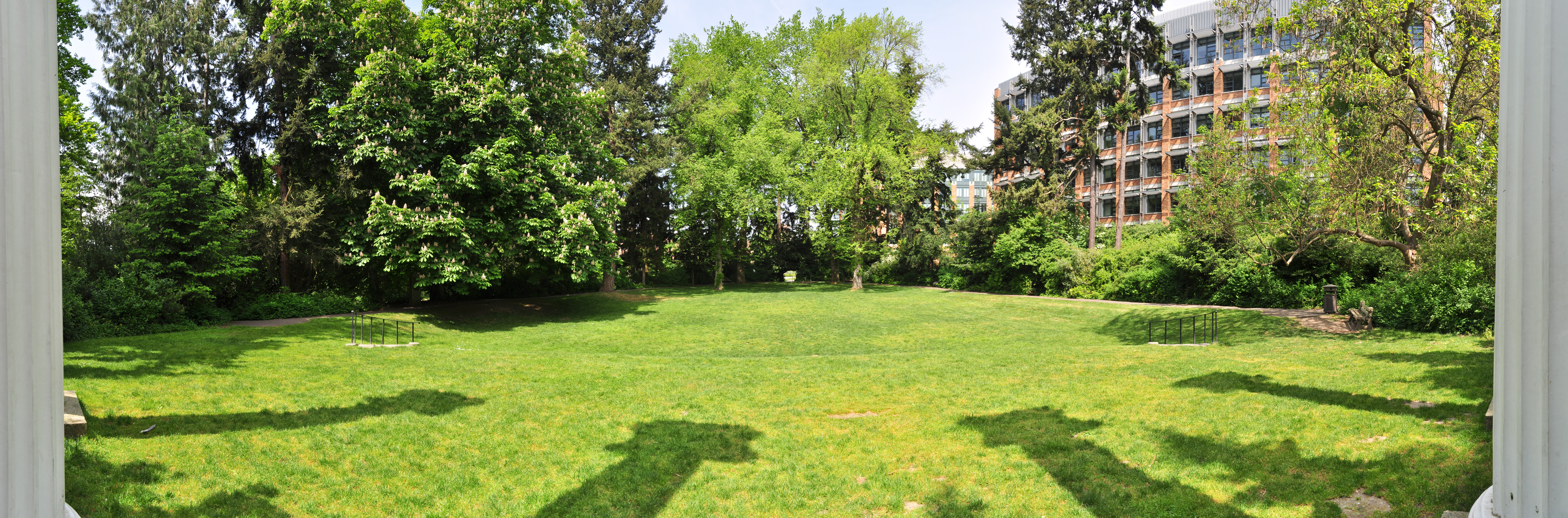 Roughly 175° panoramic view from the stage of the Sylvan Grove Theater, University of Washington, Seattle, Washington, U.S. This image was created with Hugin